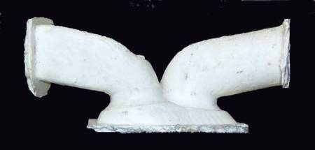 I created this for the cylinder head porting article